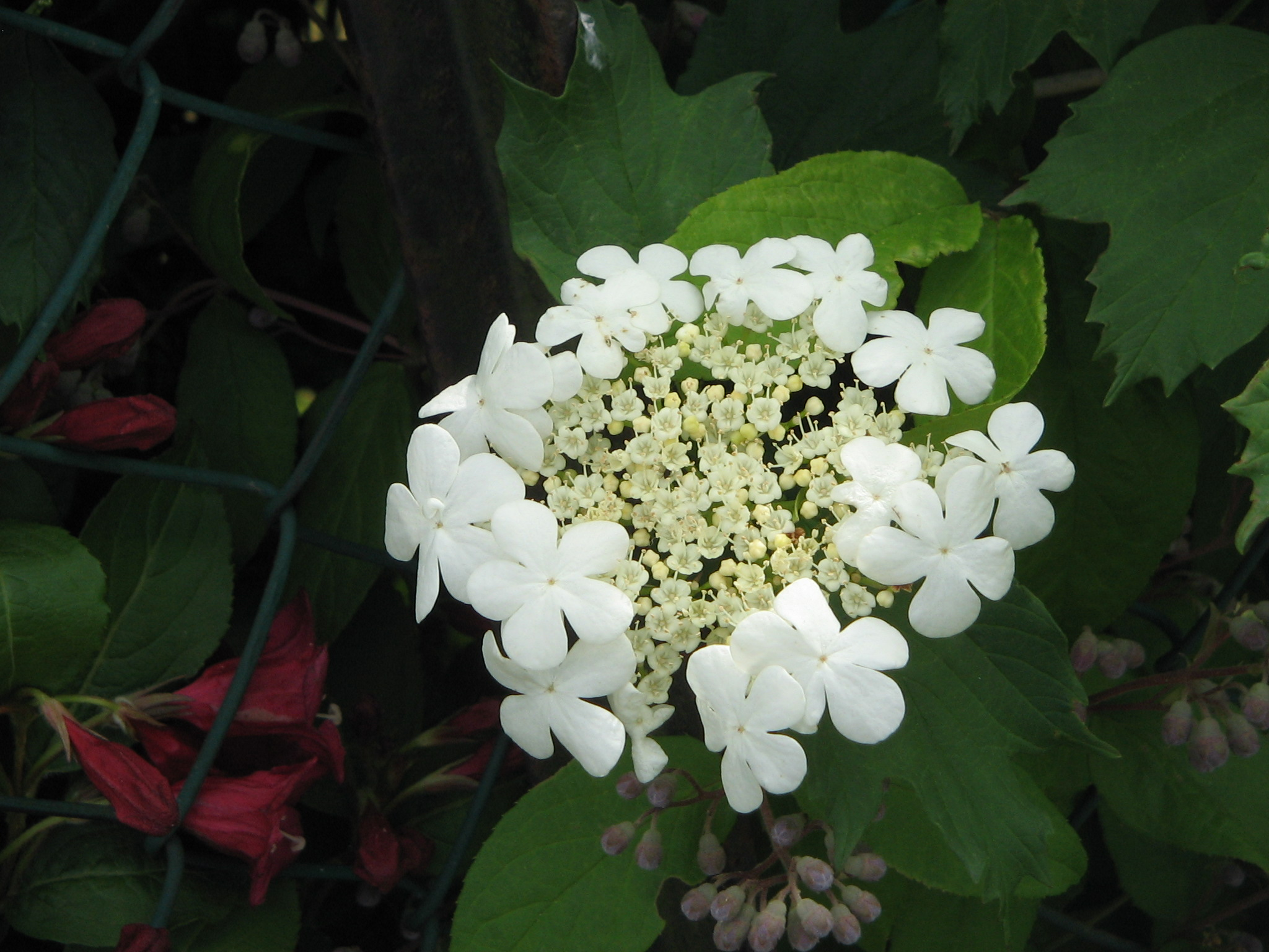 Viburnum opulus